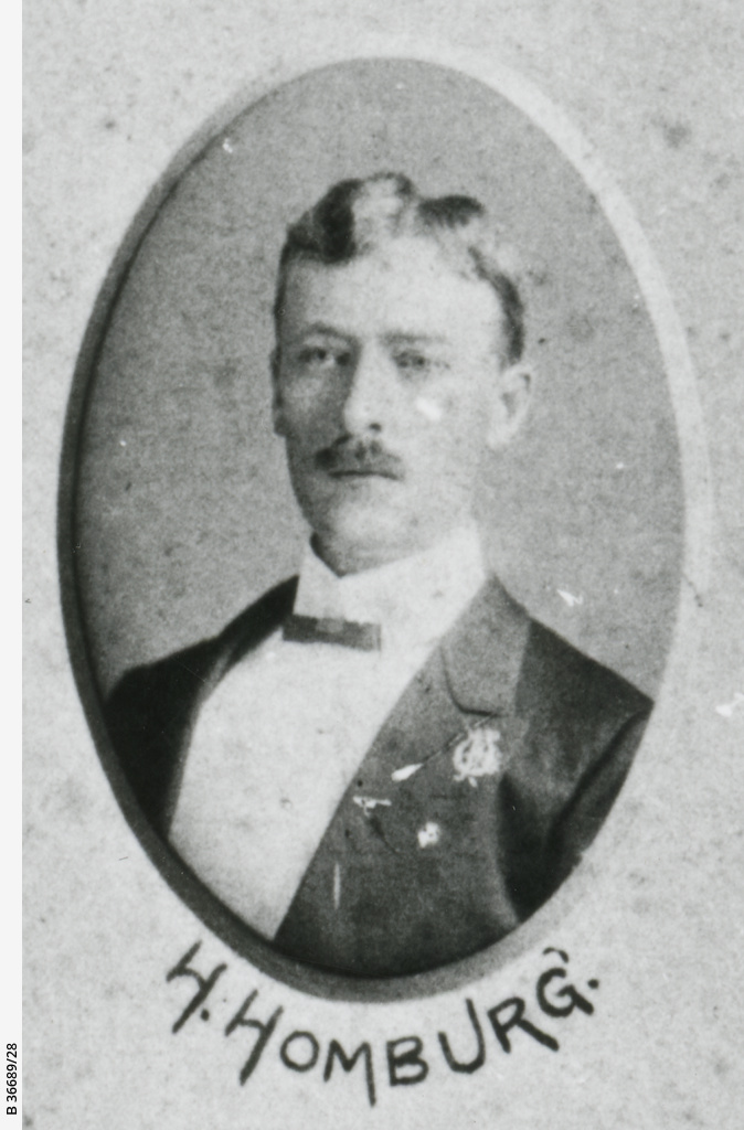 Portrait of Hermann Homburg, a member of the Adelaide Liedertafel (Adelaide choir). This is one of 35 individual portraits which make up a composite of the 'Adelaider Liedertafel' (to see the composite photograph do a number search on B 36689). Digitised on 4 June 2008 State Library image ID B-36689-28